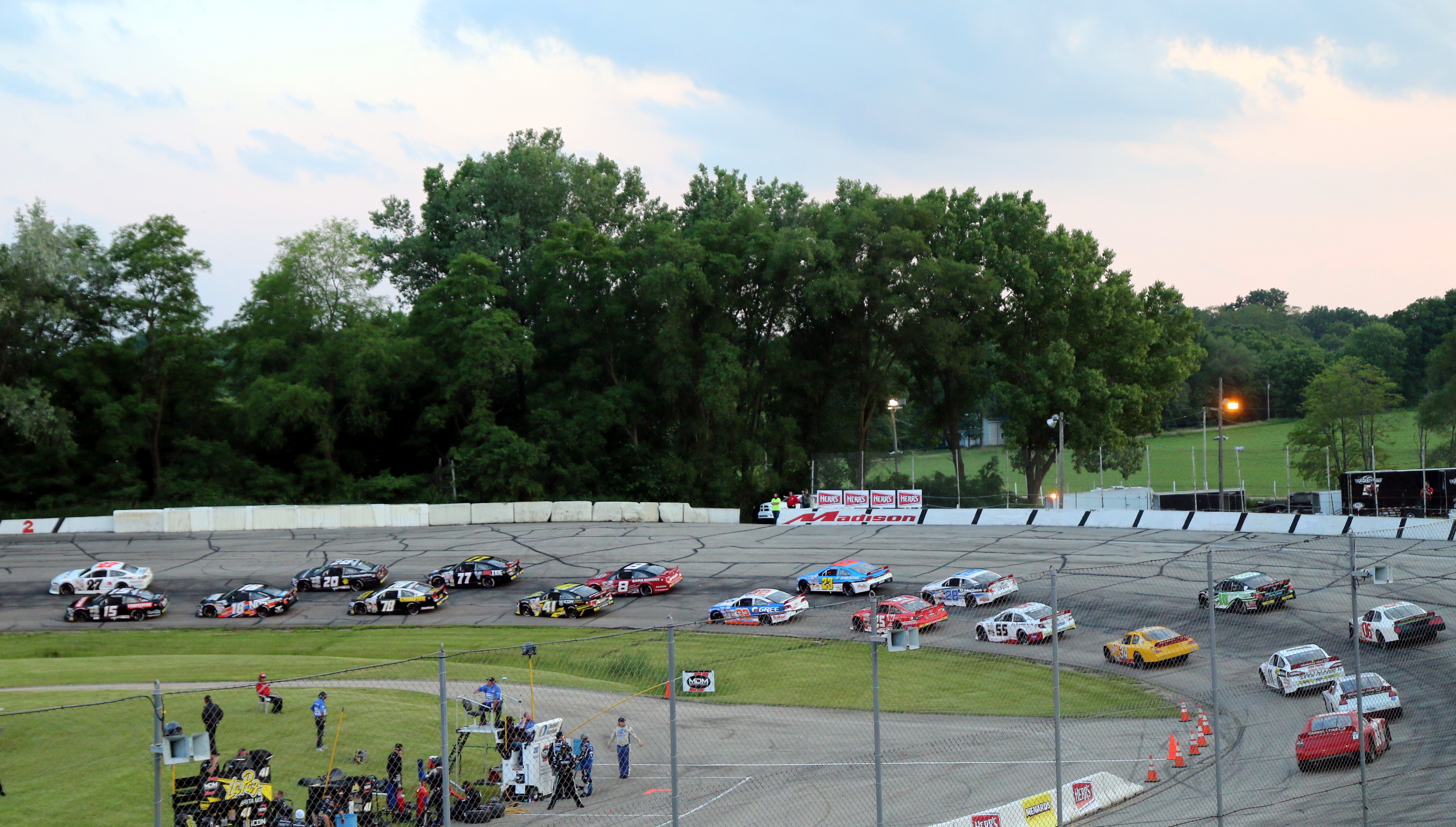 The field in Turns 1 and 2 for the Herr's Potato Chips 200 ARCA race at Madison International Speedway.